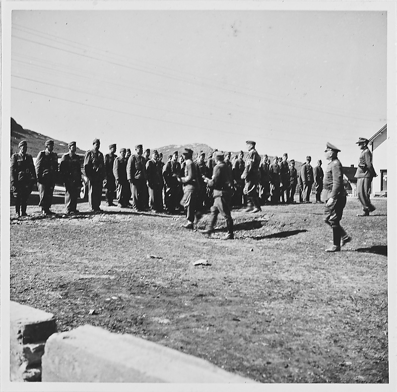 Image from "Photo Album from Terboven's journey to Nothern Norway and Finland 10–27 July 1942" (Mit dem Reichskommissar nach Nordnorwegen und Finnland 10. bis 27. Juli 1942), 375 images uploaded to www. by Riksarkivet (National Archives of Norway) 2012. See scanned album here